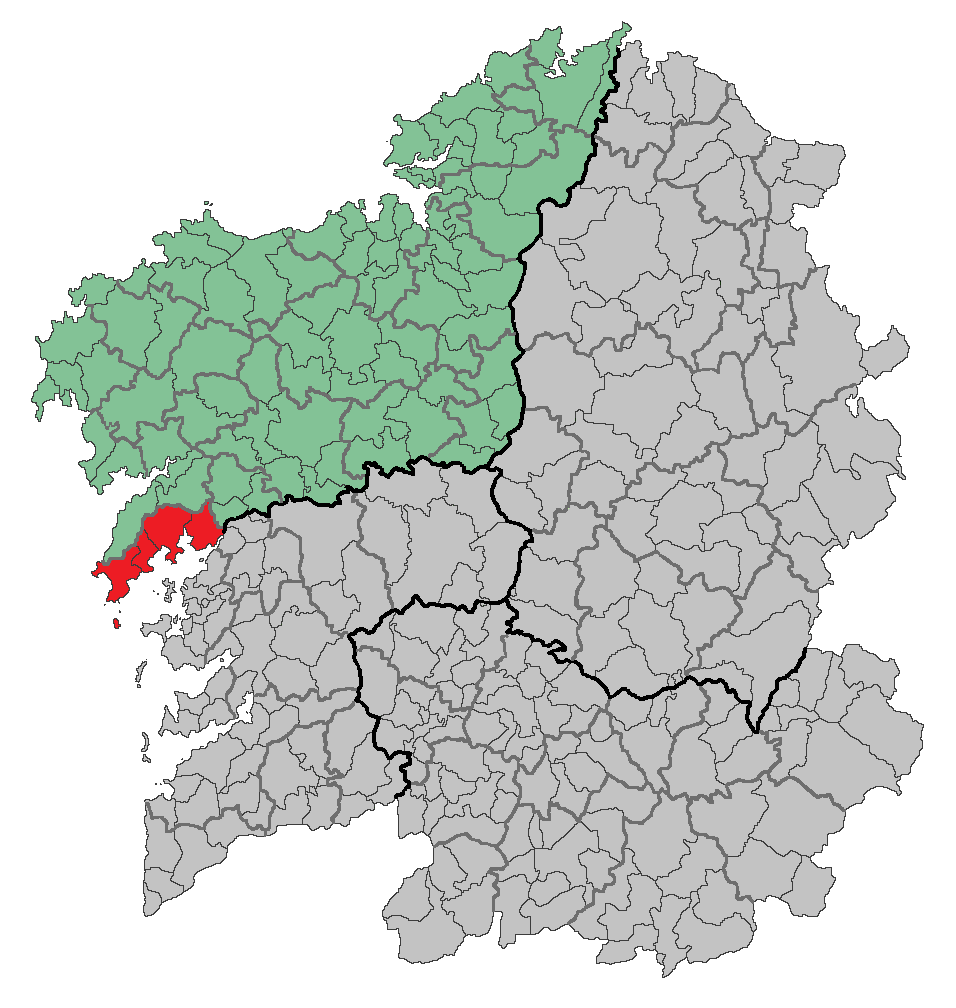 Region of Galicia (Spain)Based in: Image:Location of Ribeira.png Source: Designed by Leoplus. Original picture, designed by Caiser over a work made by Alyssalover.